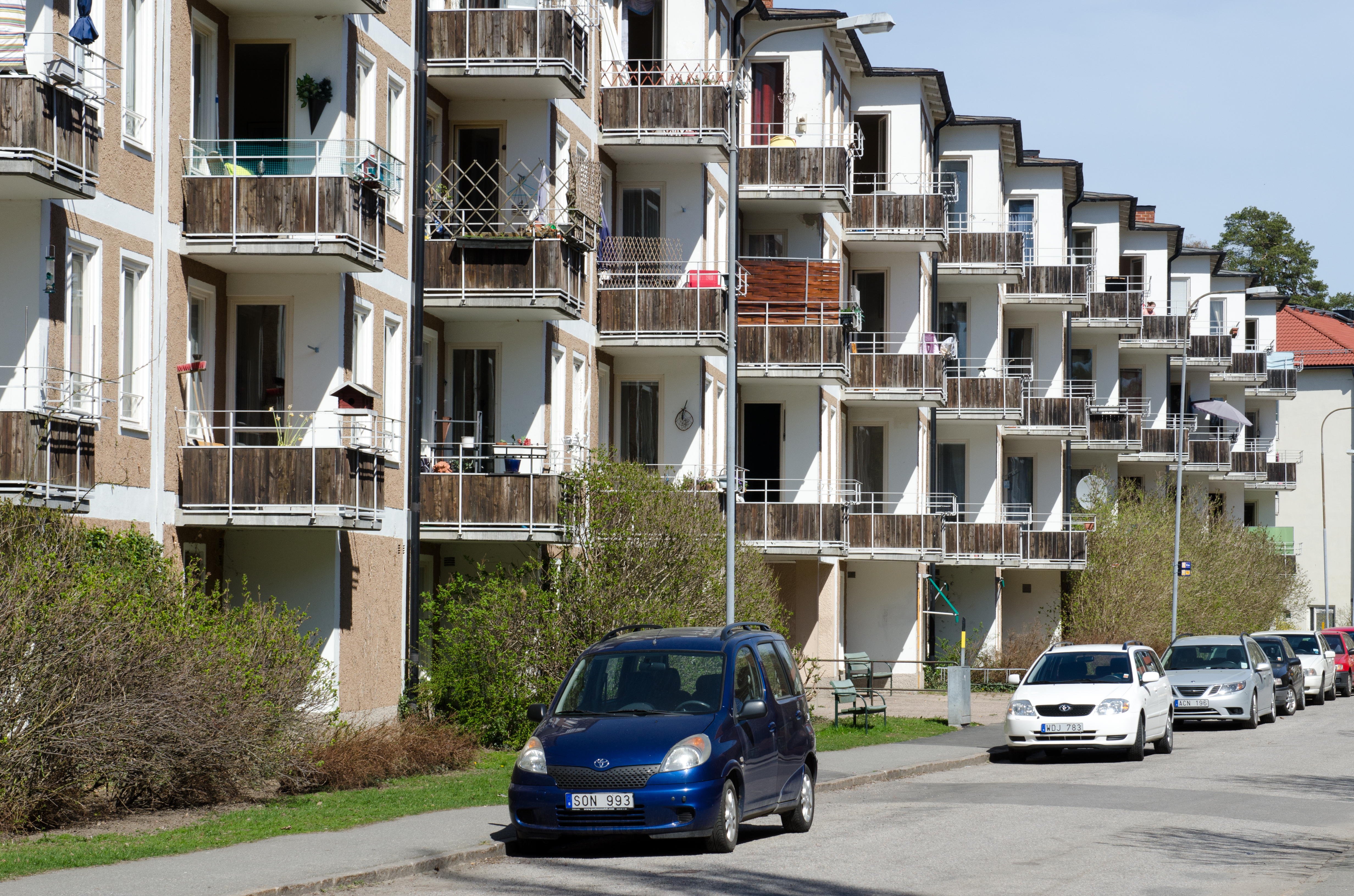 Sjöskumspipan 4. Modernist apartment building completed 1952. Architect David Helldén. Hökarängen (Stockholm).